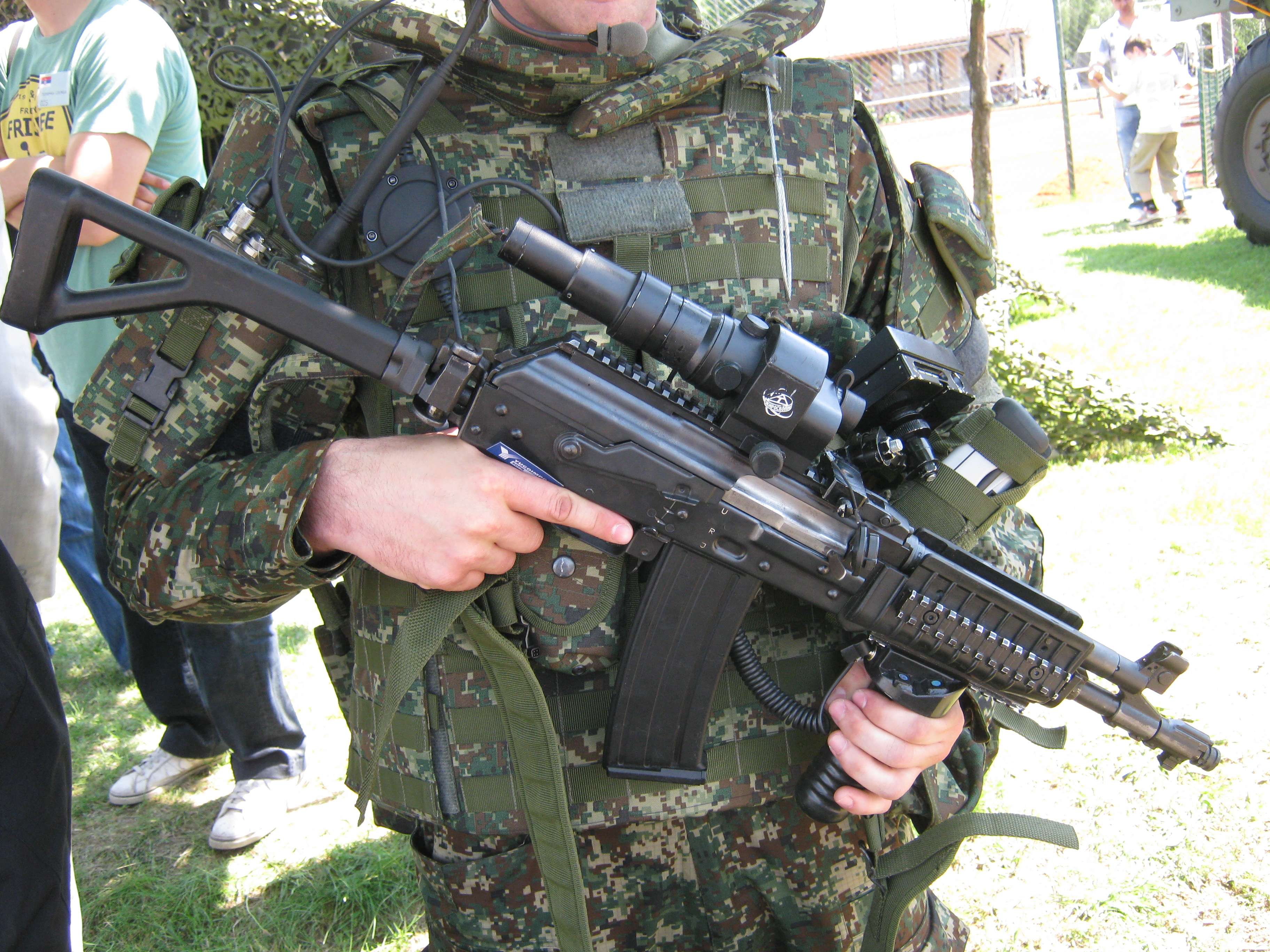 Zastava M21 rifle with corner display,modified by Yugoimport.